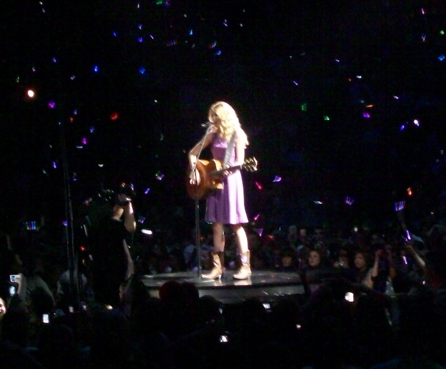 Taylor Swift Live in St. Louis at the Scottrade Center on 04/25/09